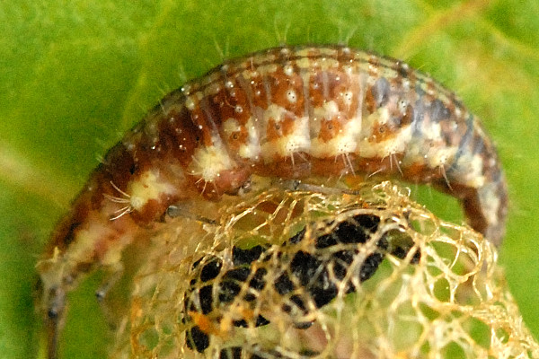 Chrysoperla sp. from Commanster, Belgian High Ardennes .